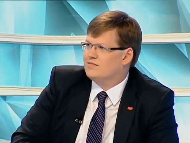 Pavlo Rozenko, Ukrainian politician, member of the Ukrainian Verkhovna Rada